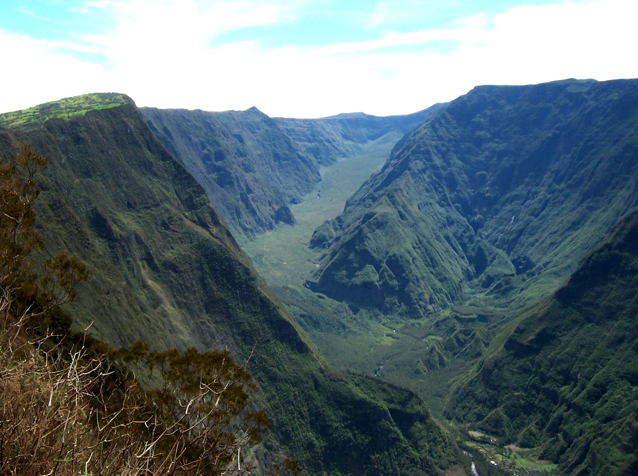 the upper part of the Rivière des Remparts on Réunion island, seen from the viewpoint of Notre-Dame-de-la-Paix